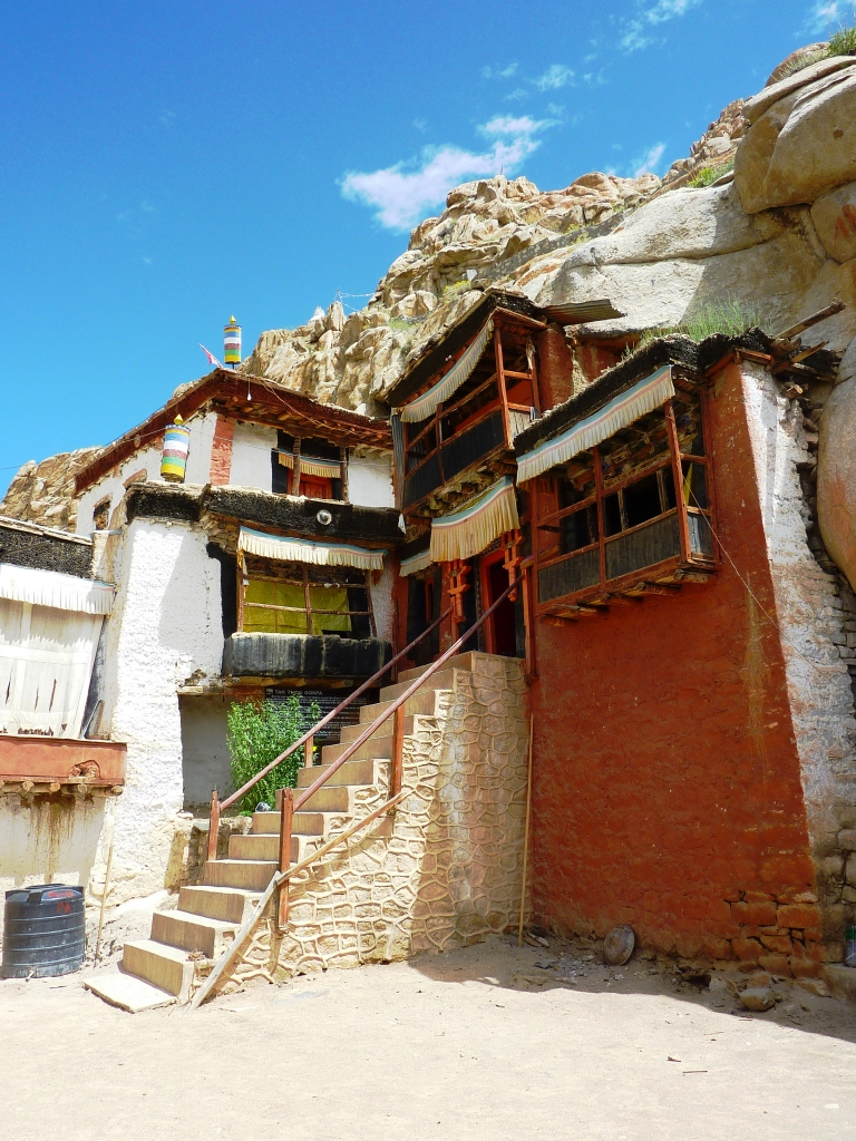 Photo taken by myself